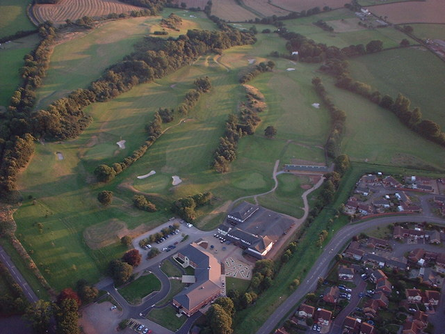 Cullompton : Padbrook Park Golf Course Looking down upon Padbrook Park Golf Course from the a balloon.